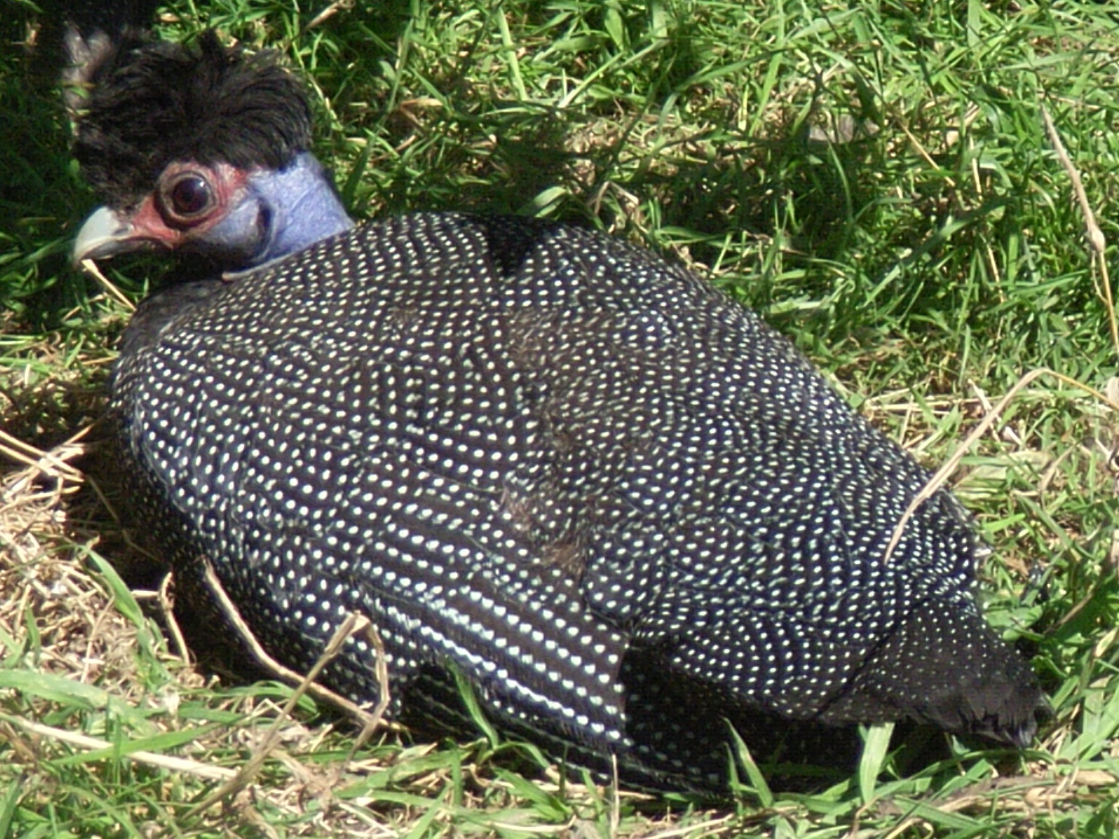 Photo of a captive Kenya Crested Guineafowl (Guttera p. pucherani). Photo taken in Safaripark Beekse Bergen, The Netherlands, using a Ricoh Caplio R4 camera.